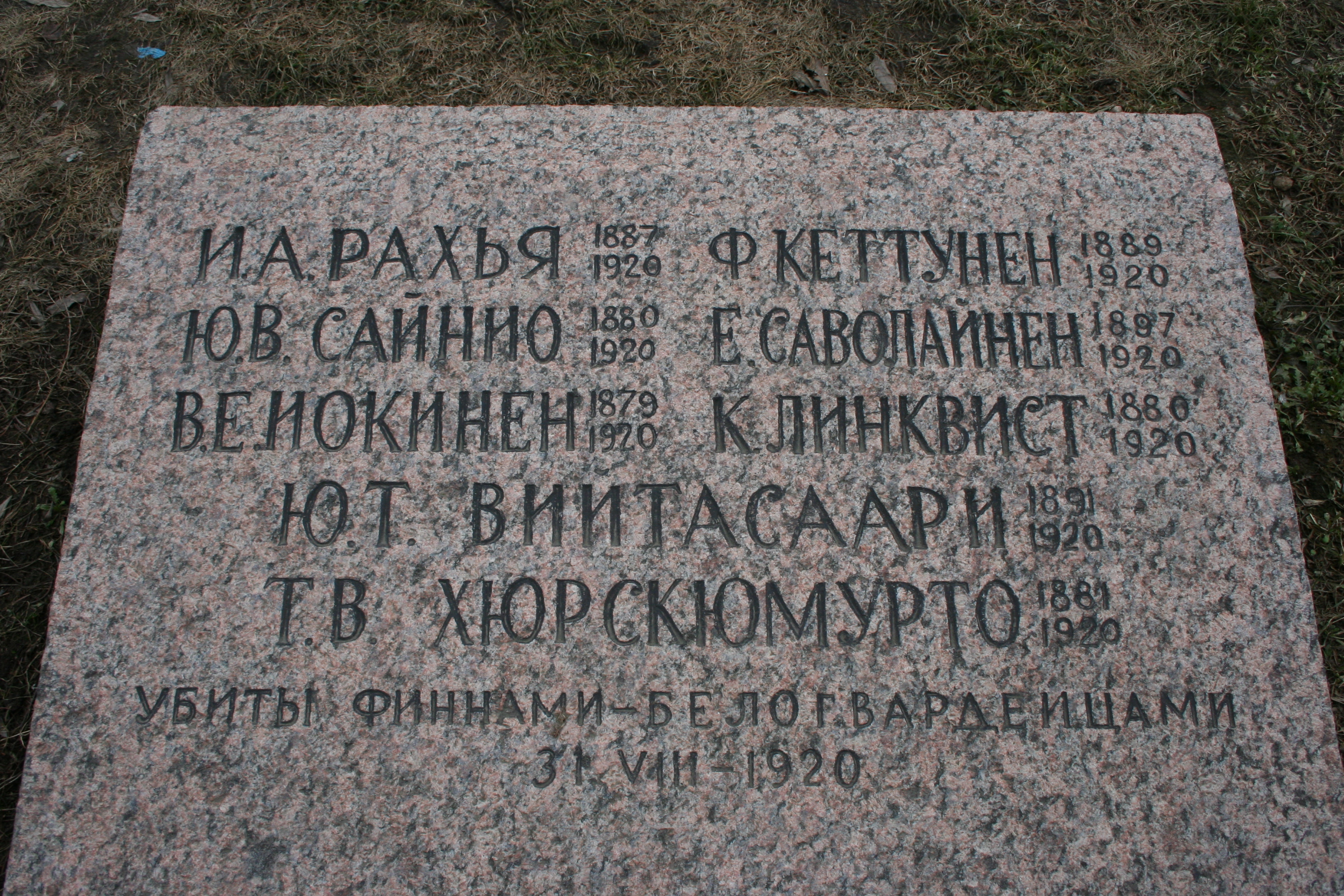 Burial site of 8 Finnish bolsheviks in Mars Fields, Saint Petersburg. They were killed by Finnish bolsheviks.